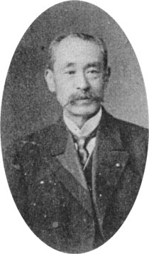 Isoji Ishiguro, Director of Koshu Gakko.